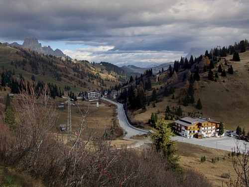 Passo Campolongo Picture taken by user Idéfix , november 1, 2006